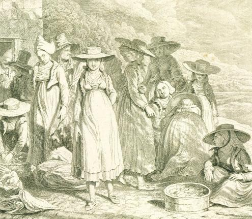 English copper engraving: above, Ischl, below Sunday Cloathes, buying fruit — Les Habits des Dimanches, Achat de fruits